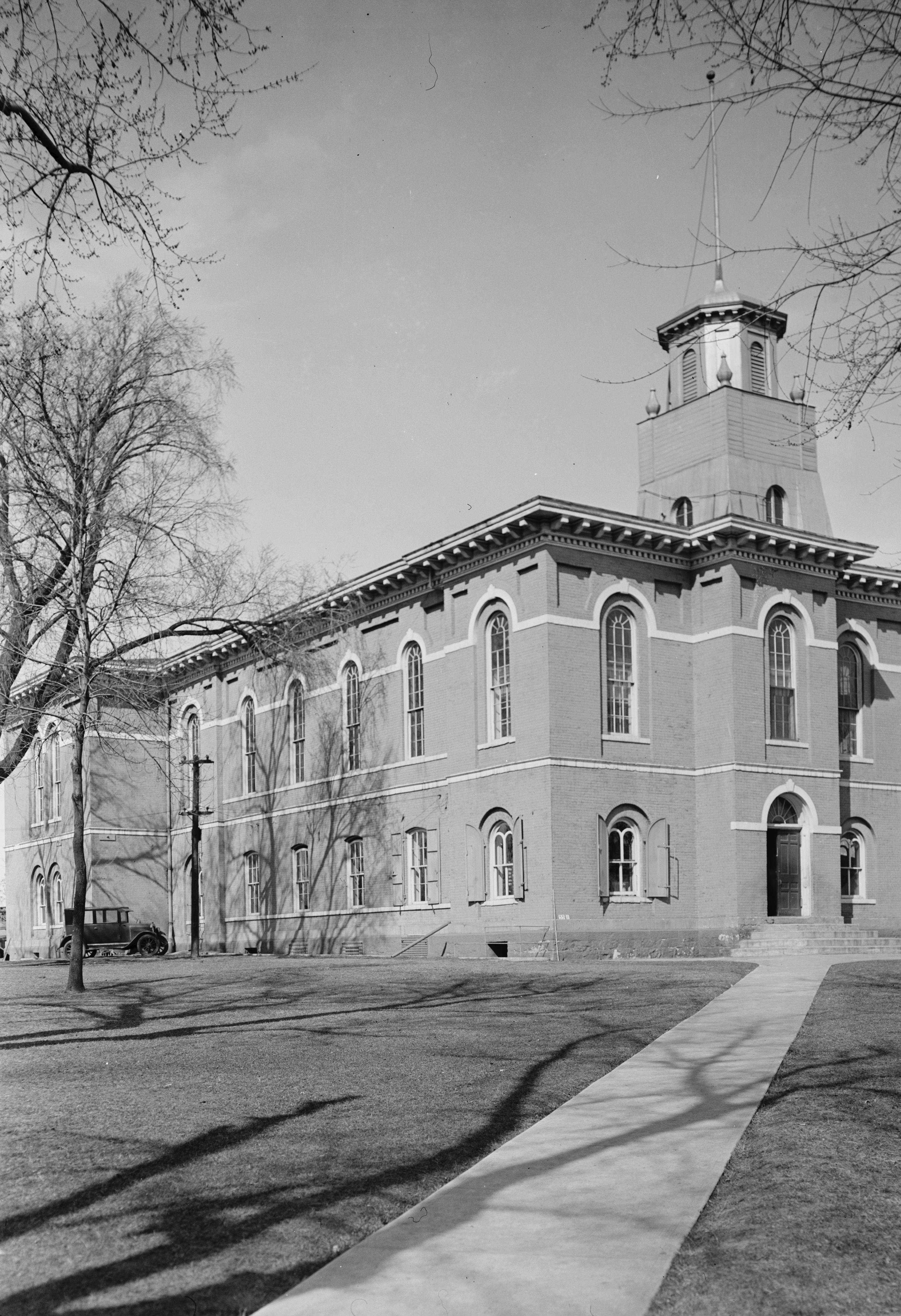 Front of the Otoe County Courthouse, located at the intersection of Tenth Street and Central Avenue in Nebraska City, Nebraska, United States. Built in 1865, it is listed on the National Register of Historic Places.